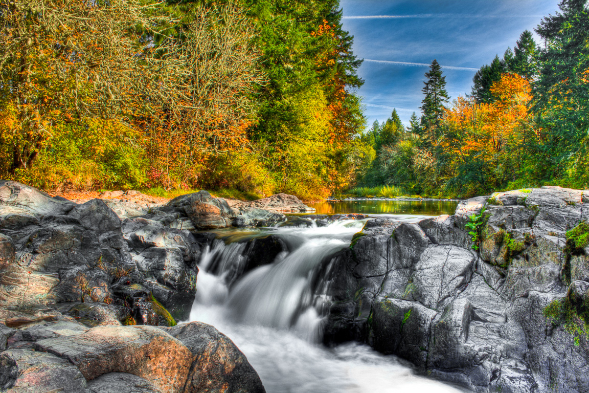 Wildwood Falls, east of Cottage Grove.